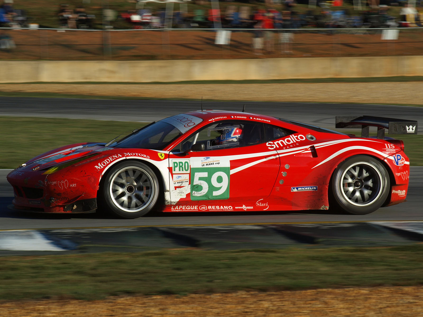 Frédéric Makowiecki driving the Luxury Racing Ferrari 458 in the 2011 Petit Le Mans at Road Atlanta.